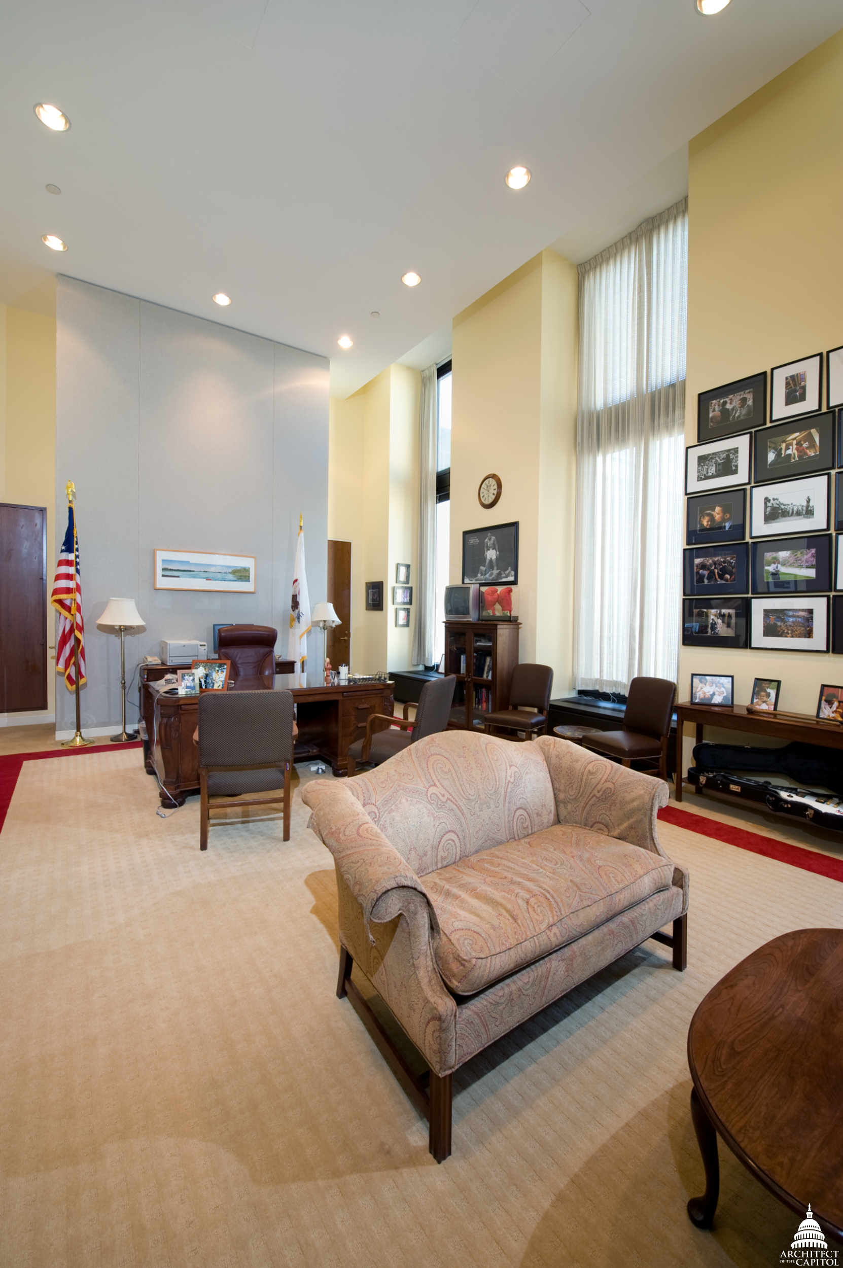 A typical 16-foot (4.9 m) high Senator's office in the Hart Senate Office Building in Washington, D.C., in the United States.